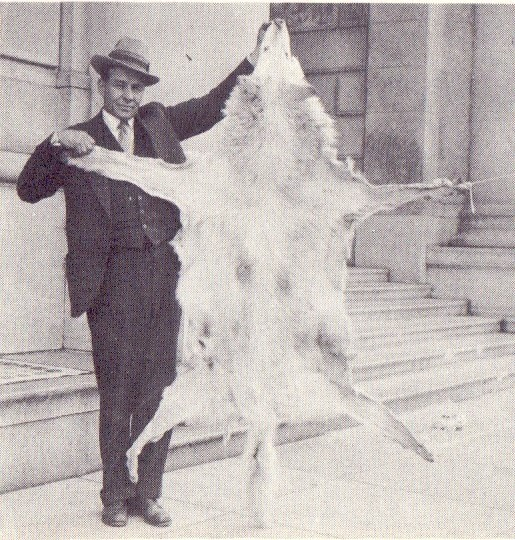 Skin of the "Sycan" wolf of souther Oregon (1927), with biological survey hunter Elmer Williams.